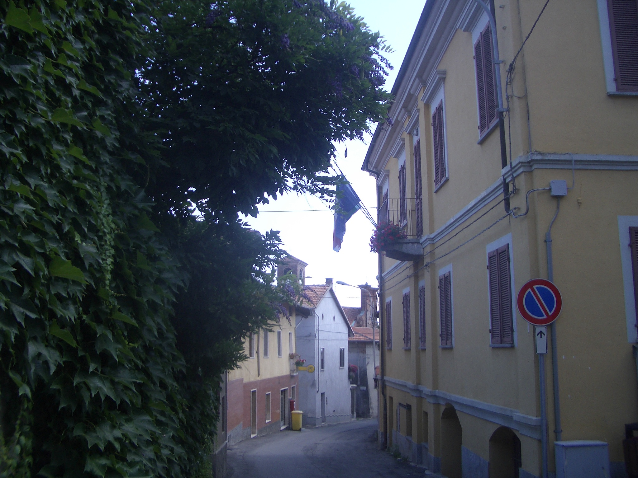 Barone Canavese, the road with the Town-Hall